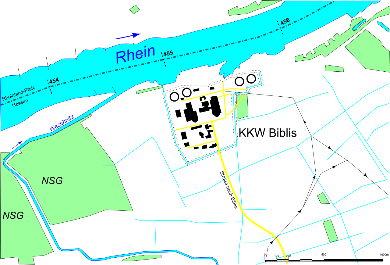 Map of the nuclear power plant Biblis (Hesse, Germany)